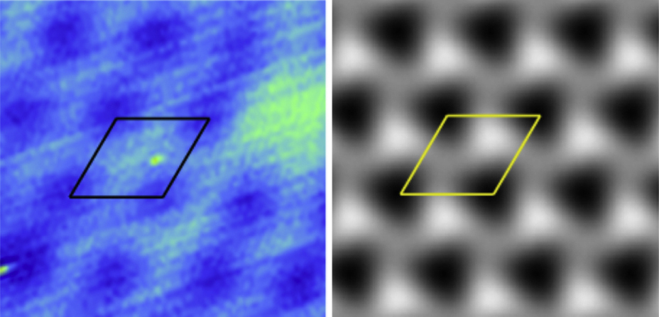 Comparison between the experimental image (left panel, and the simulated STM image of germanene on the √7 × √7 Au(111) surface.